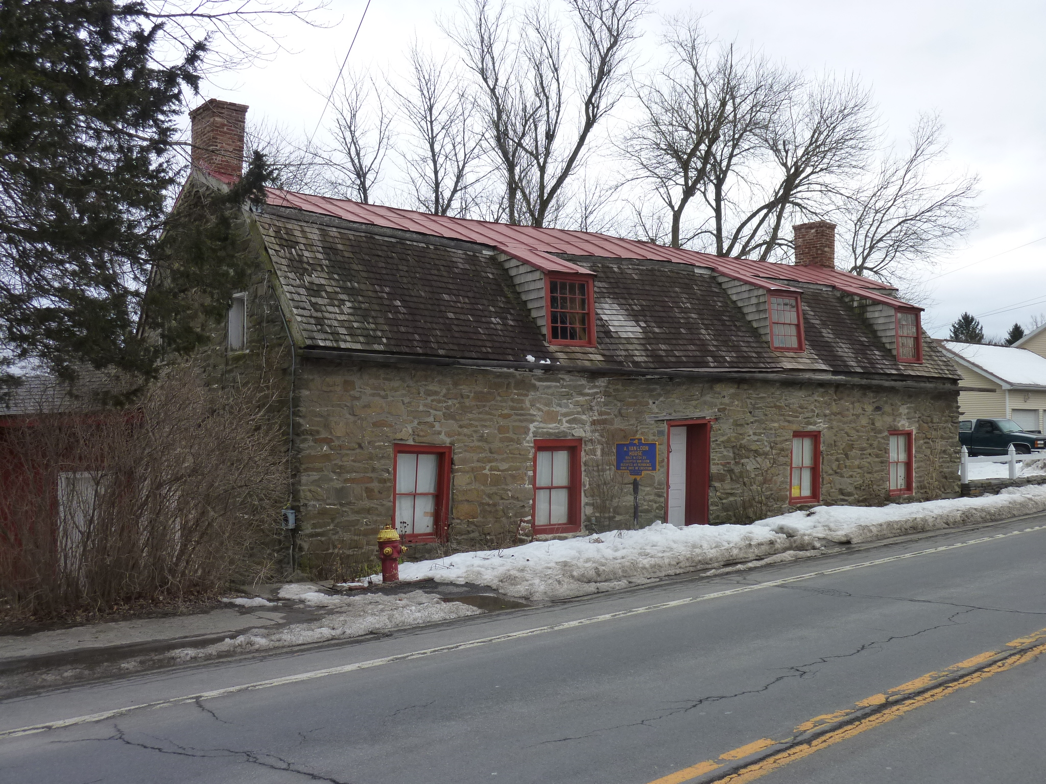 in Athens, NY